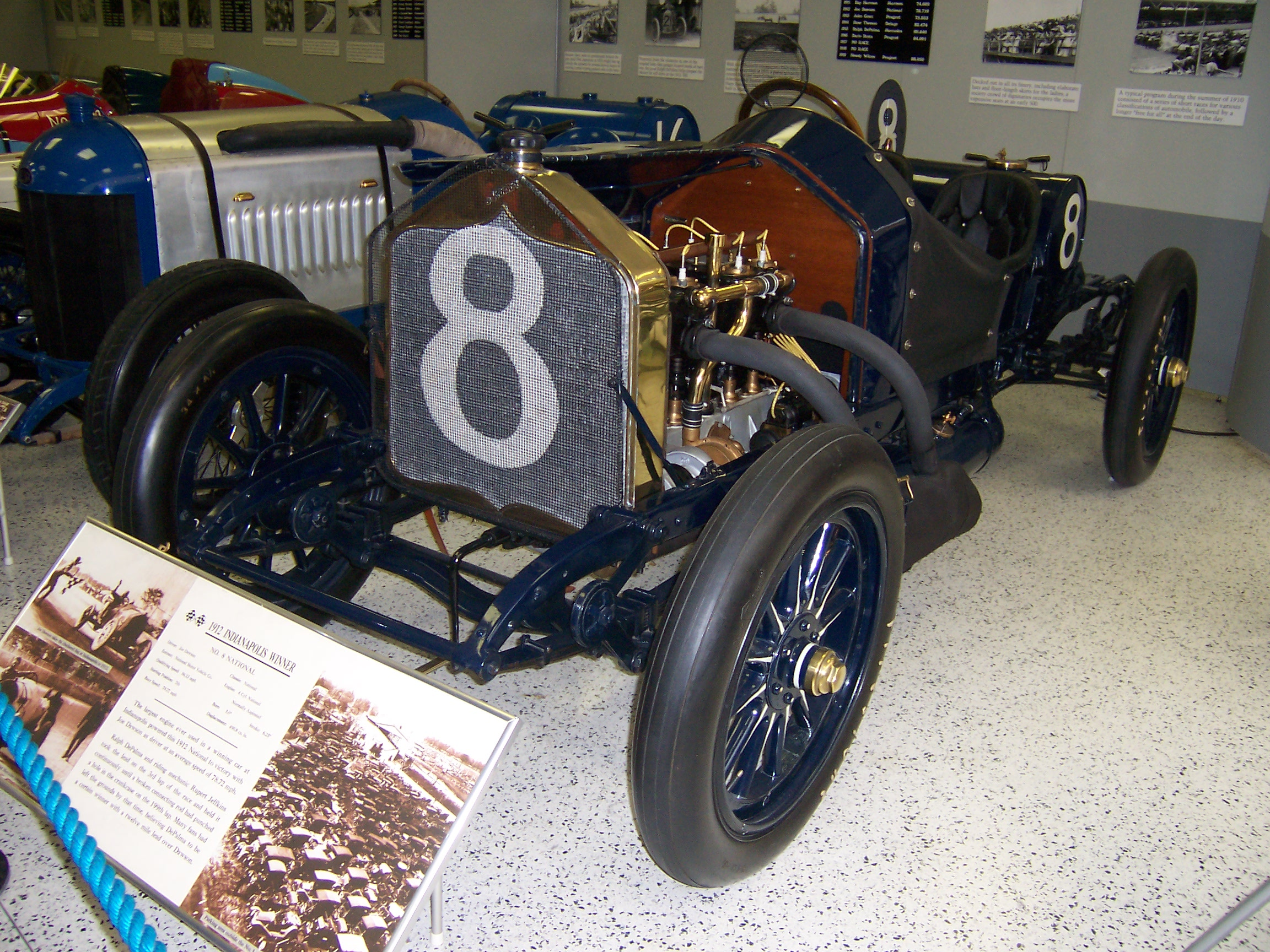 Image of the winning car of the 1912 Indianapolis 500 (Joe Dawson). Photo was taken at the Indianapolis Motor Speedway Hall of Fame Museum.